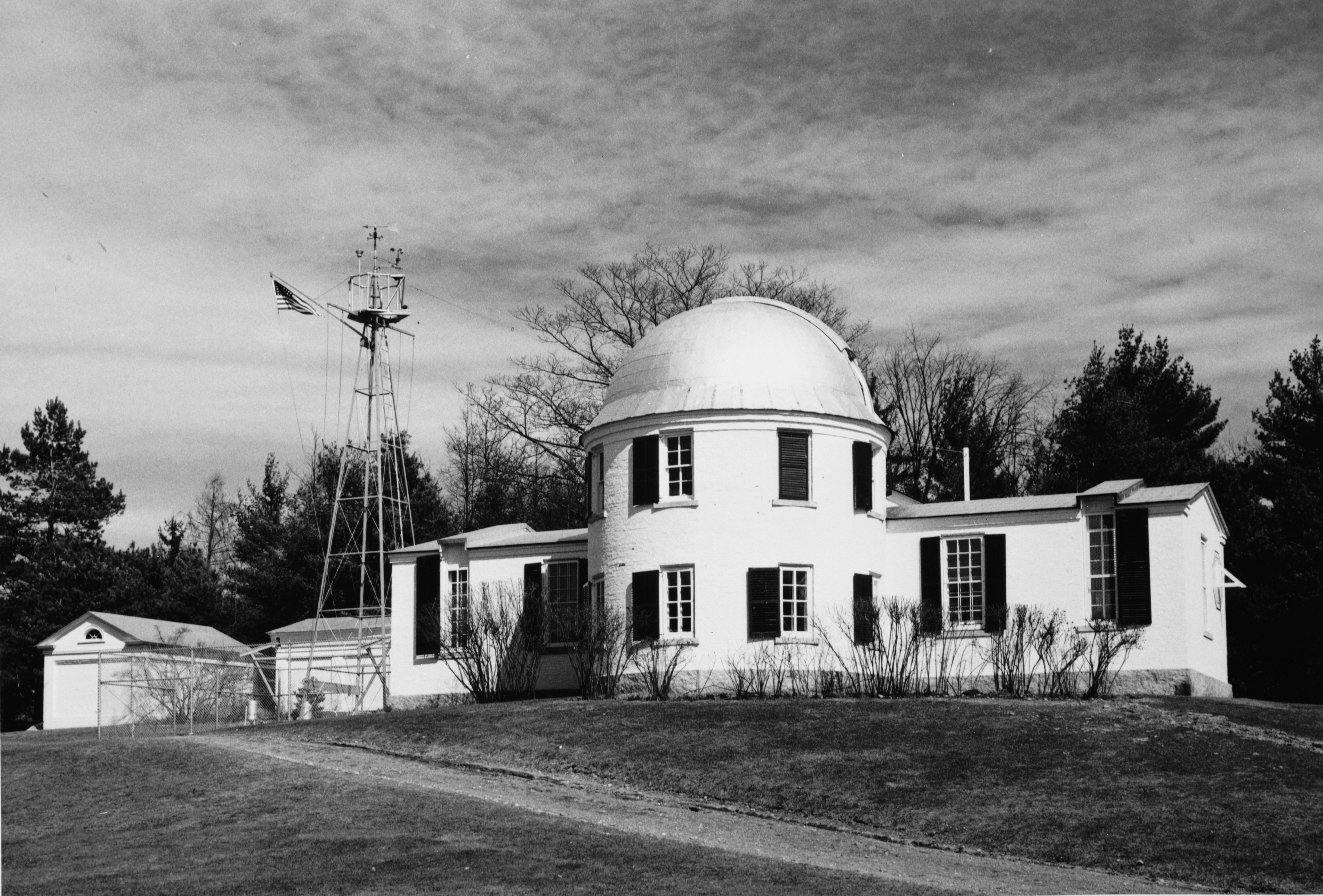 Shattuck Observatory, Dartmouth College, Hanover, New Hampshire, USA.